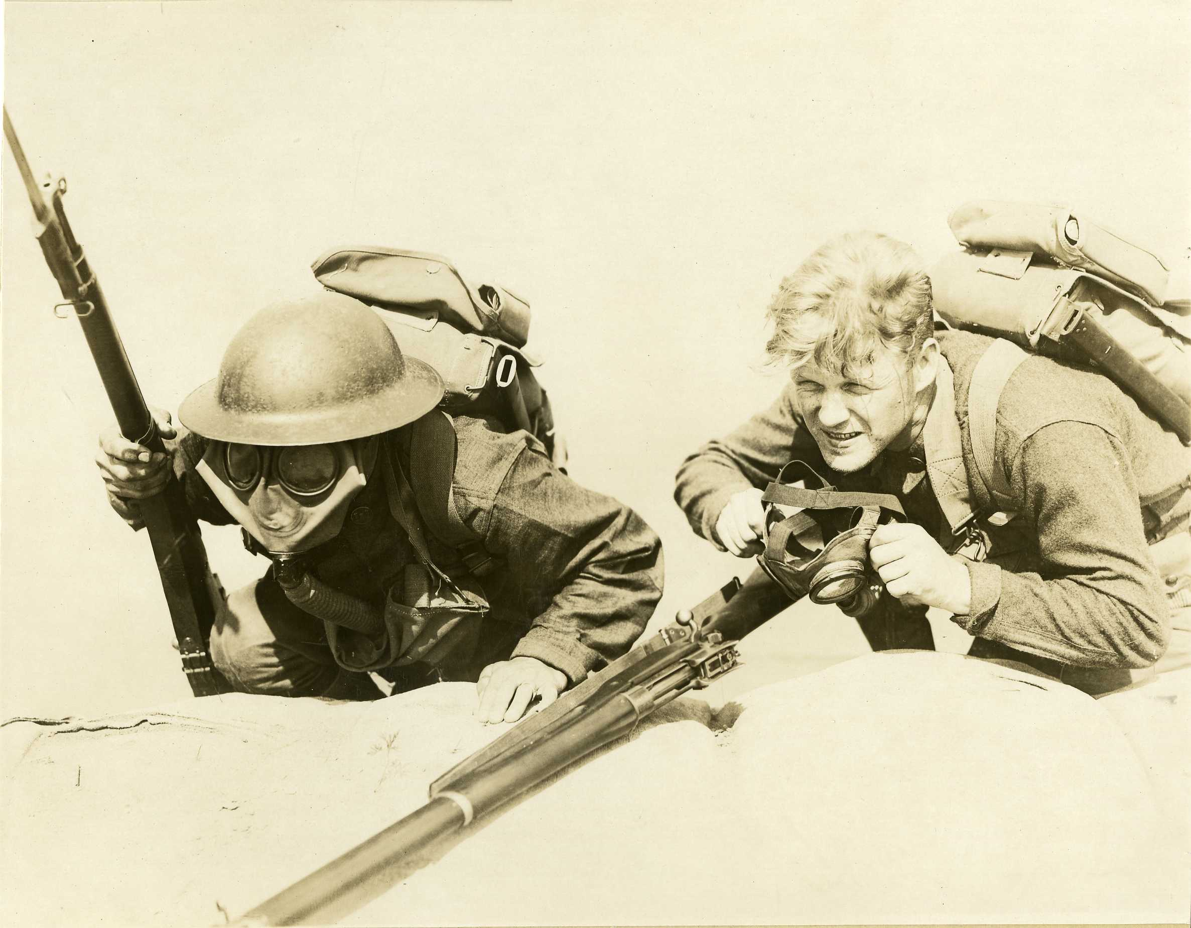 Poison gas, gas mask, putting on mask. World War 1.